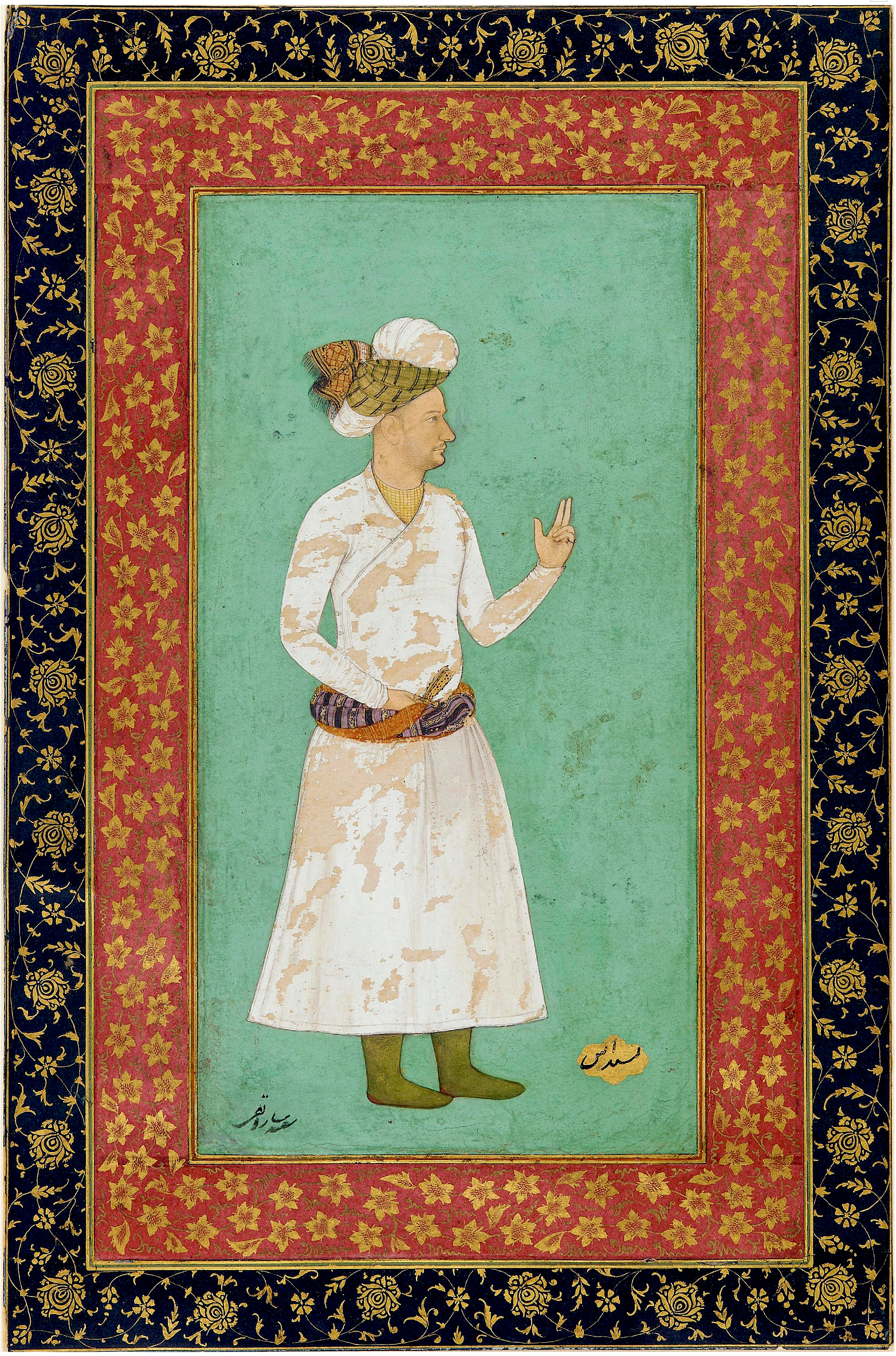 Saru Taqi, Minister of Safavid empire